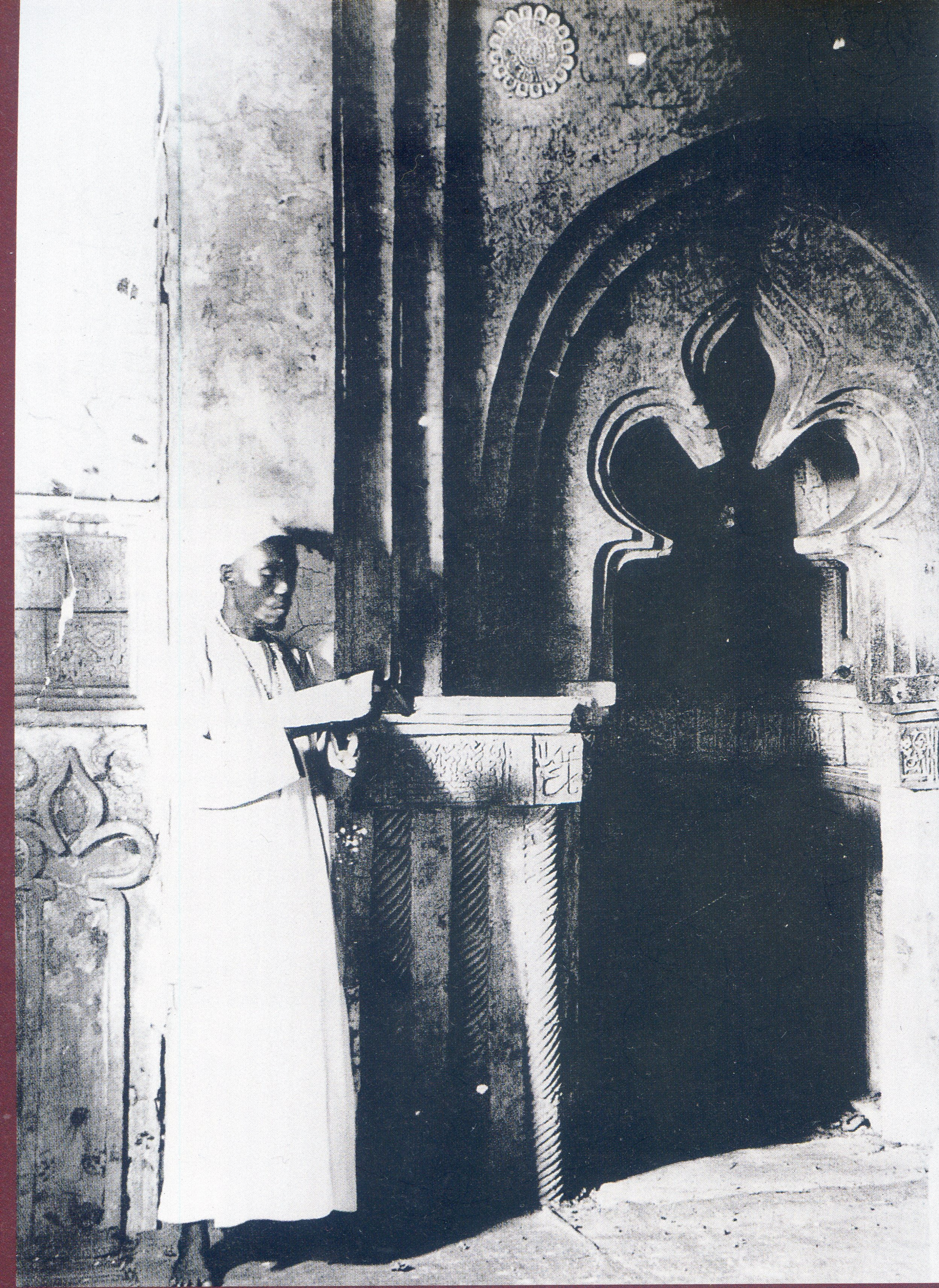 The mihrab of the twelfth century Kizimkazi mosque